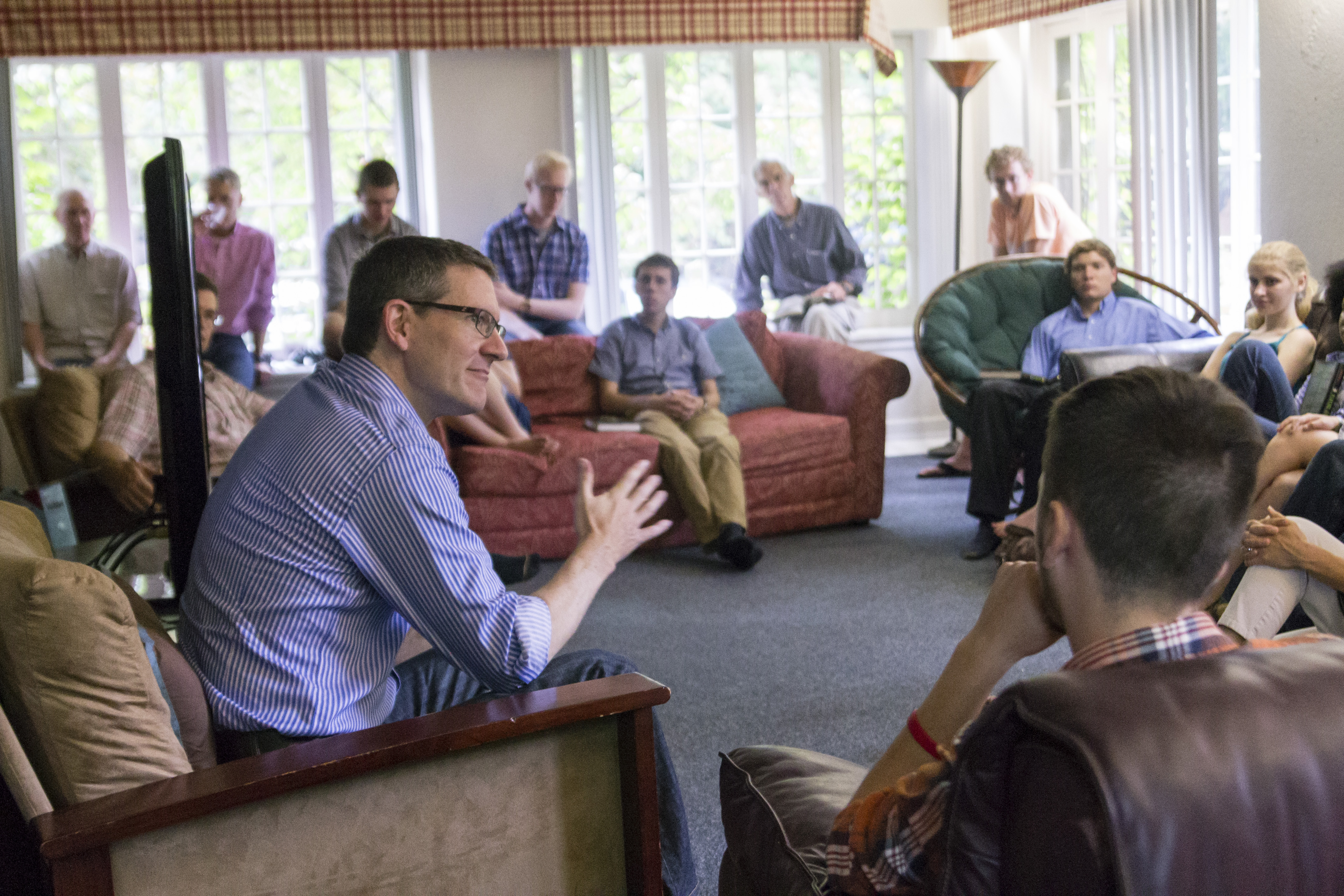 Author and pastor Andy Crouch came to Chesterton House, a Christian Study Center, at Cornell University to work with students about a Christian approach to power.